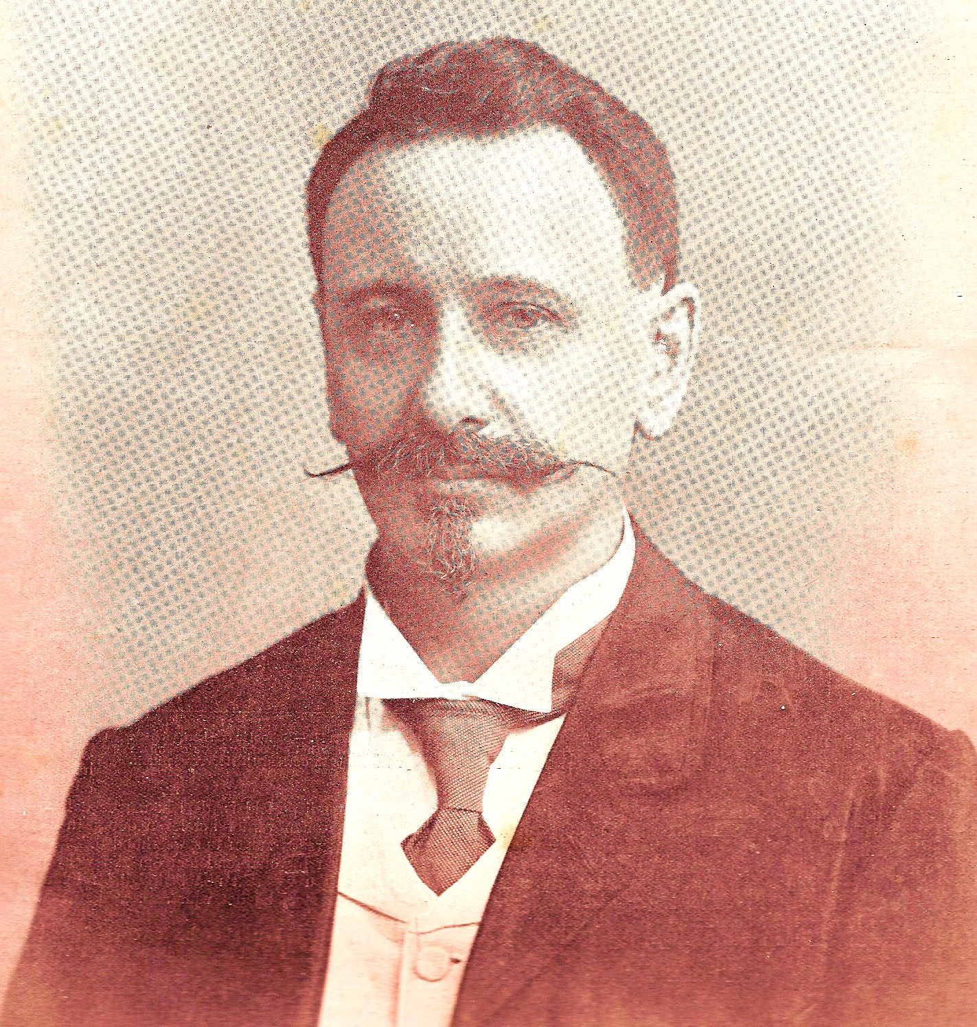 Giles Andre de la Porte 2